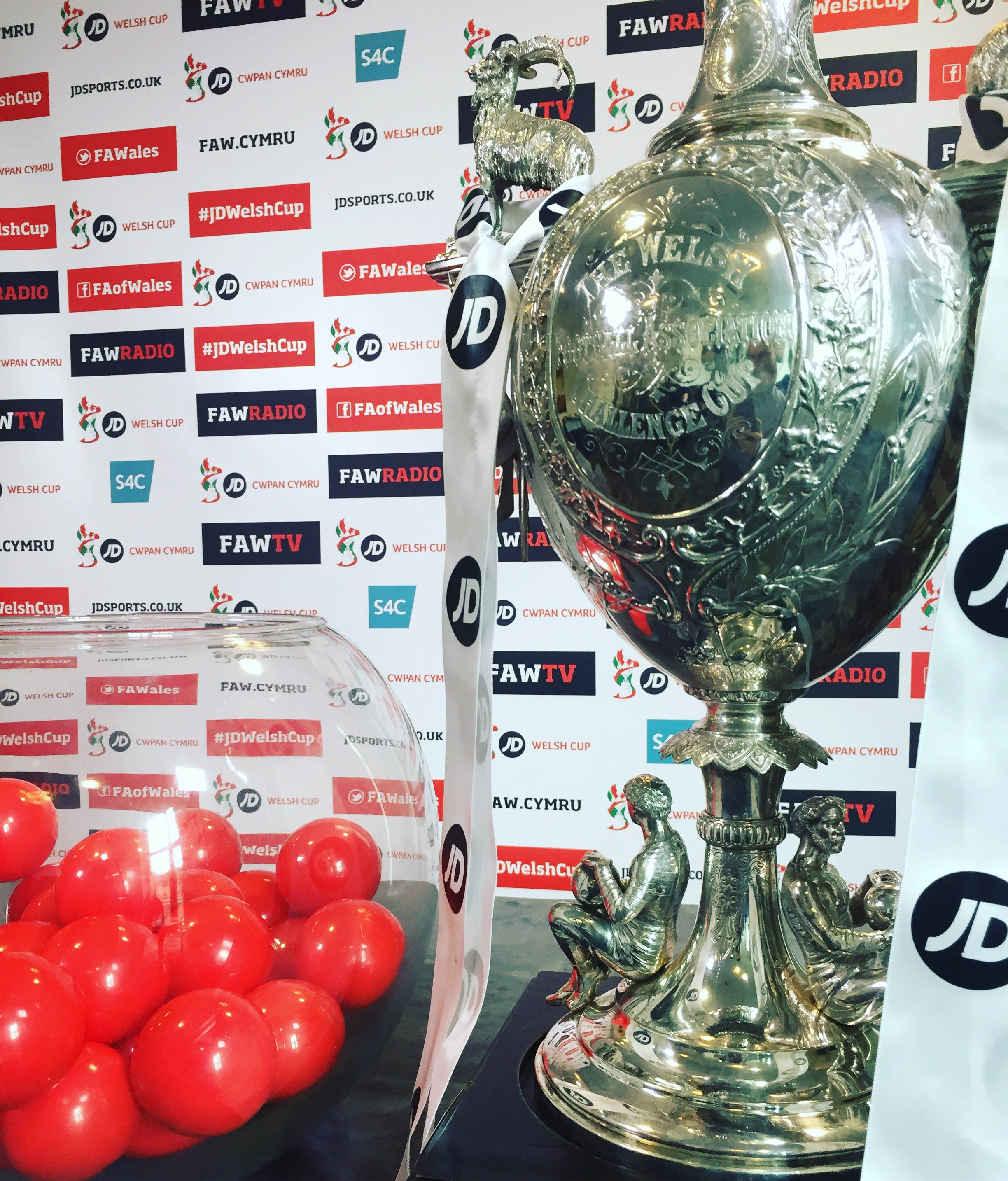 The Welsh Cup, pictured ahead of the draw for the 2017/18 Third Round.